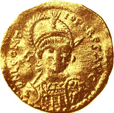 Solidus of Byzantine usurper Leontius (484-488), obverse: D N LEONT IO PERPS AVG., pearl-diademed, helmeted, and cuirassed bust facing slightly right, holding spear over shoulder in right hand and shield on left arm. Antioch mint.